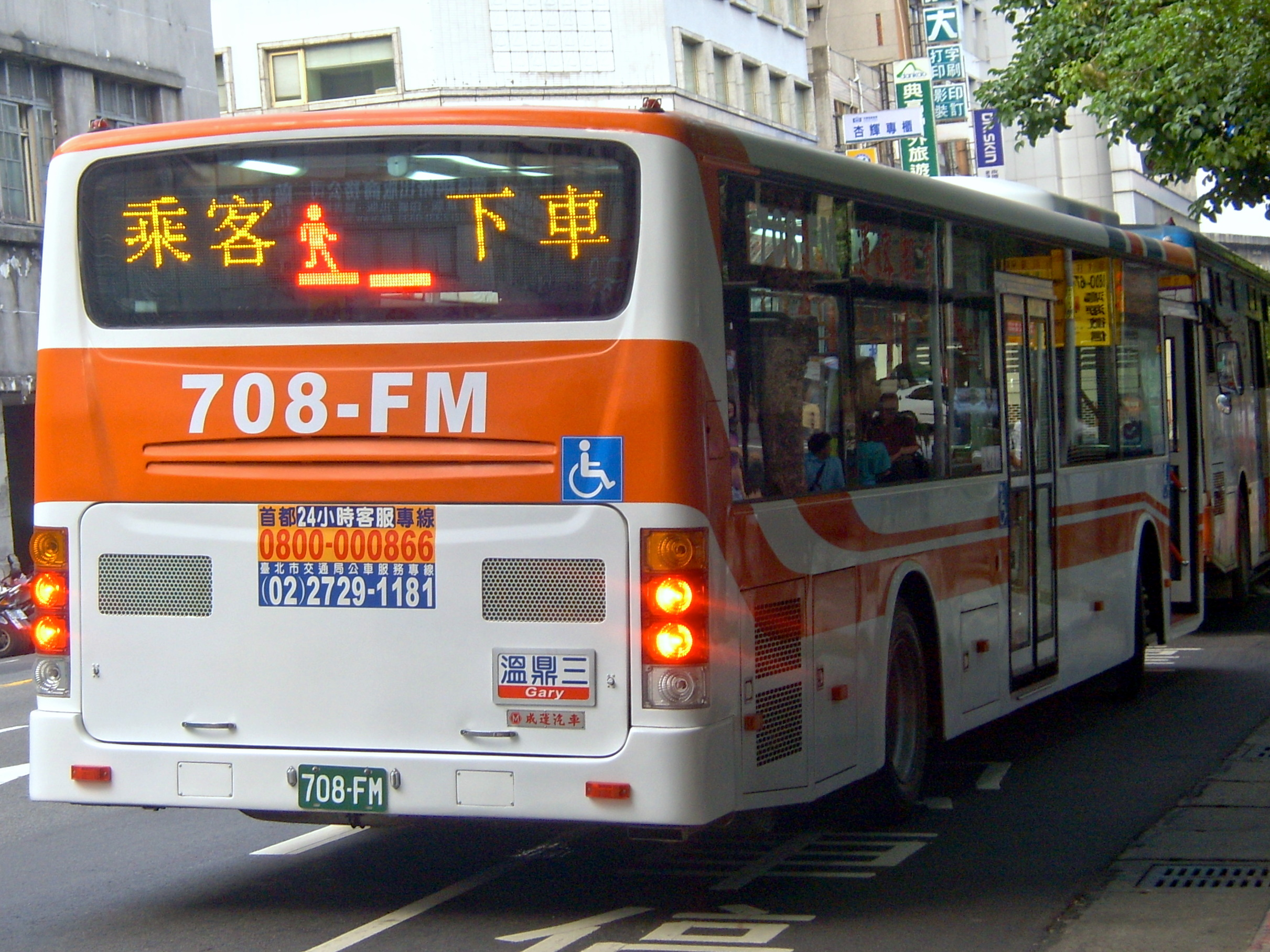 Capital Bus 708FM tail (Daewoo BS120CN low-floor bus)